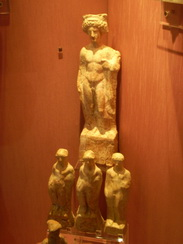 Statues in Atalanta Museum, Greece